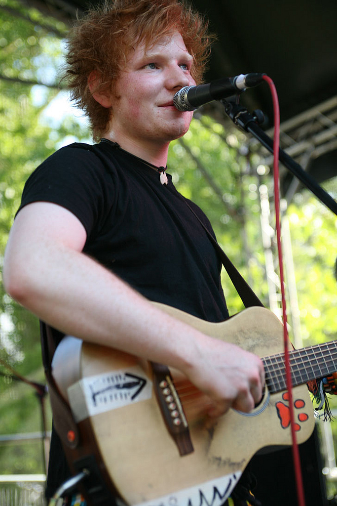 Ed Sheeran performing at Ipswich Arts Festival 2010, Photo by Jen O'Neill